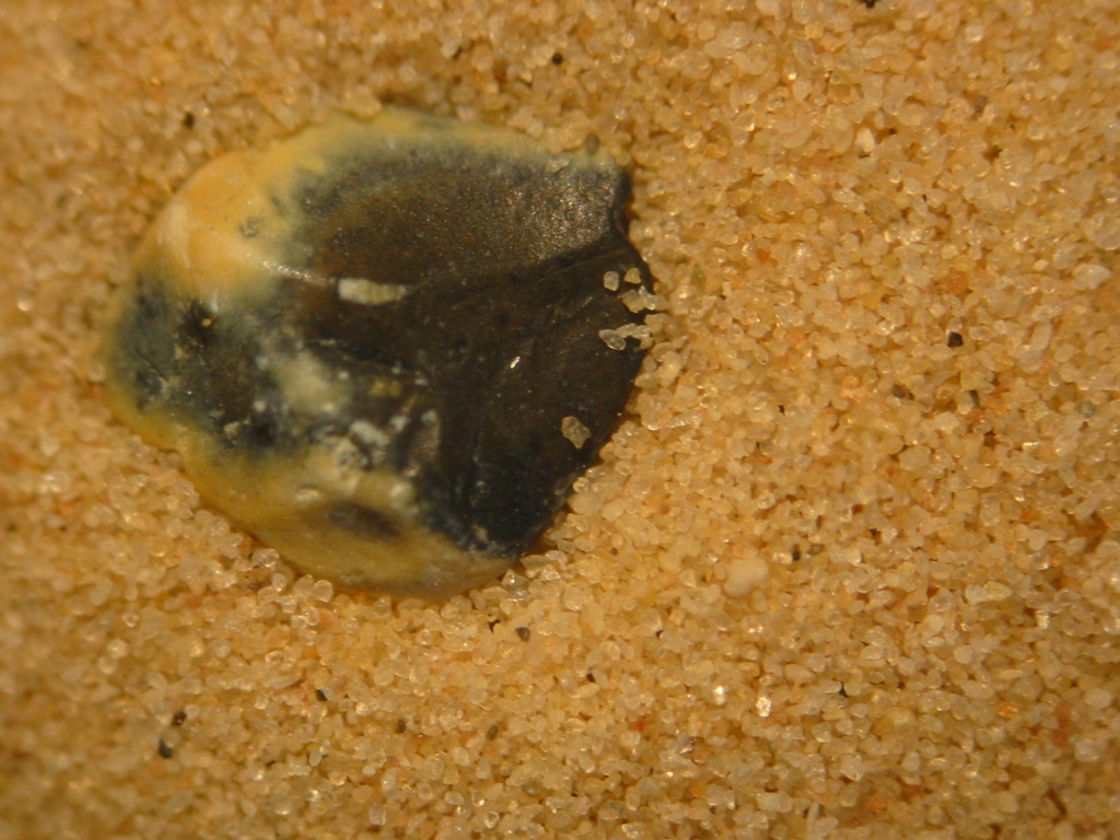 Sand from Qafsah, Tunesia (small grains) and Worthing, England (large grain). Magnification: The large grain is about 2 mm in size.